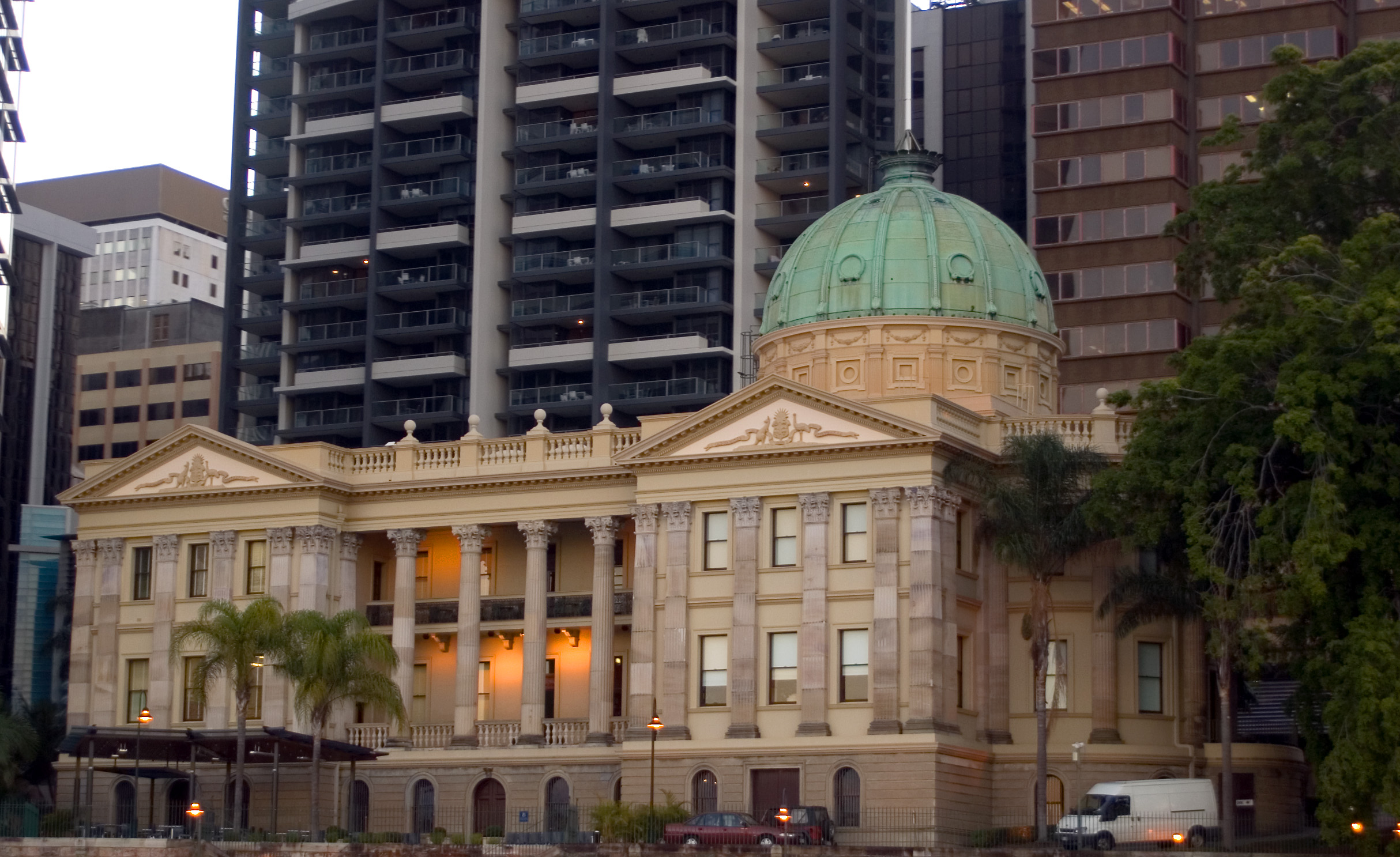 The Old Customs House in Brisbane, now used as a function centre by Queensland University.